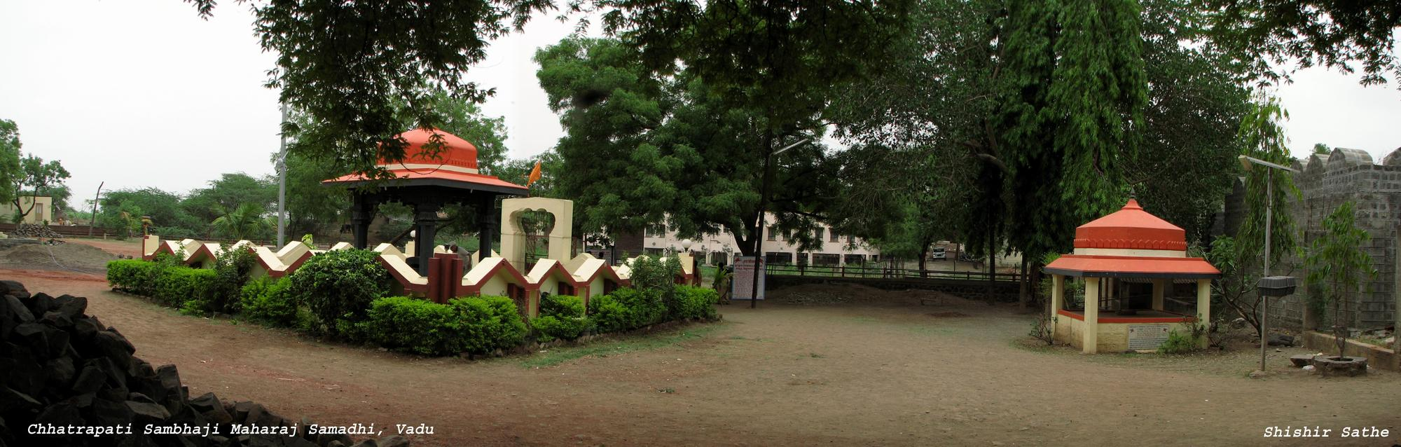 Chhatrapati Sambhaji Maharaj was brutally murdered by Aurangzeb at the confluence of river Indrayani and Bheema at Tulapur. His remains were cremated by the brave villagers of Vadu who mustered the courage to take on the might of Aurangzeb.